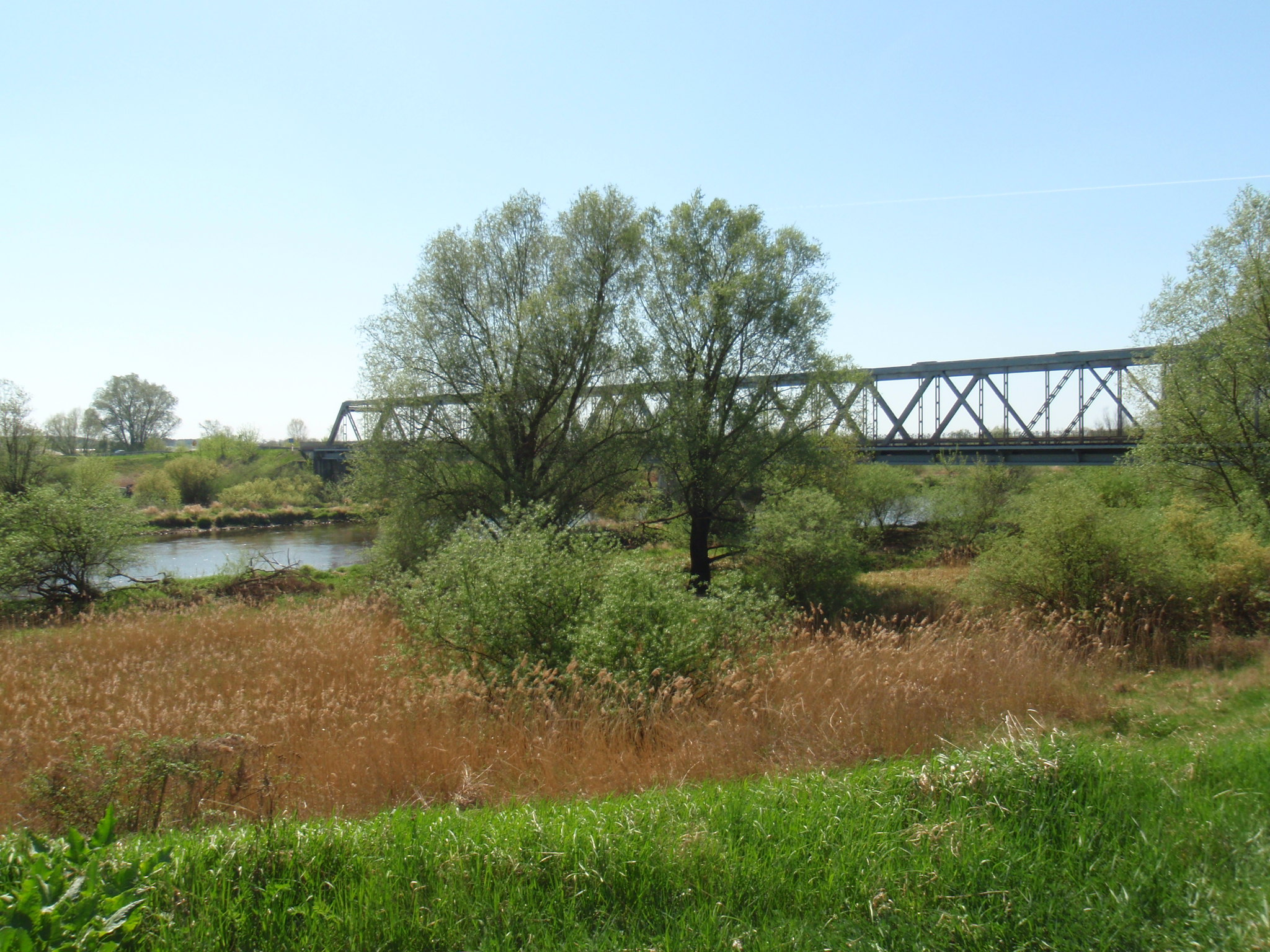 Road bridge over Pilica river in Mniszew